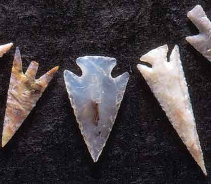 Alibates Flint Quarries National Monument, Texas, USA - Arrow heads made from flint